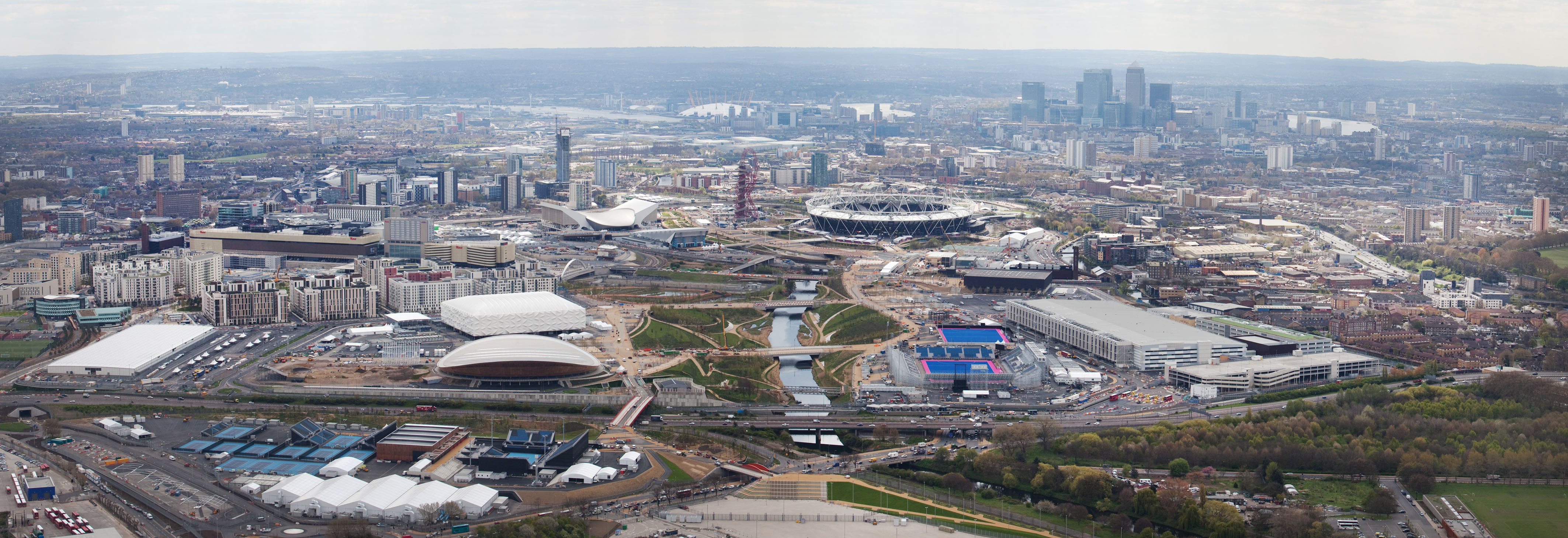 Panoramic aerial view of the Olympic Park looking south. Picture taken on 16 April 2012.